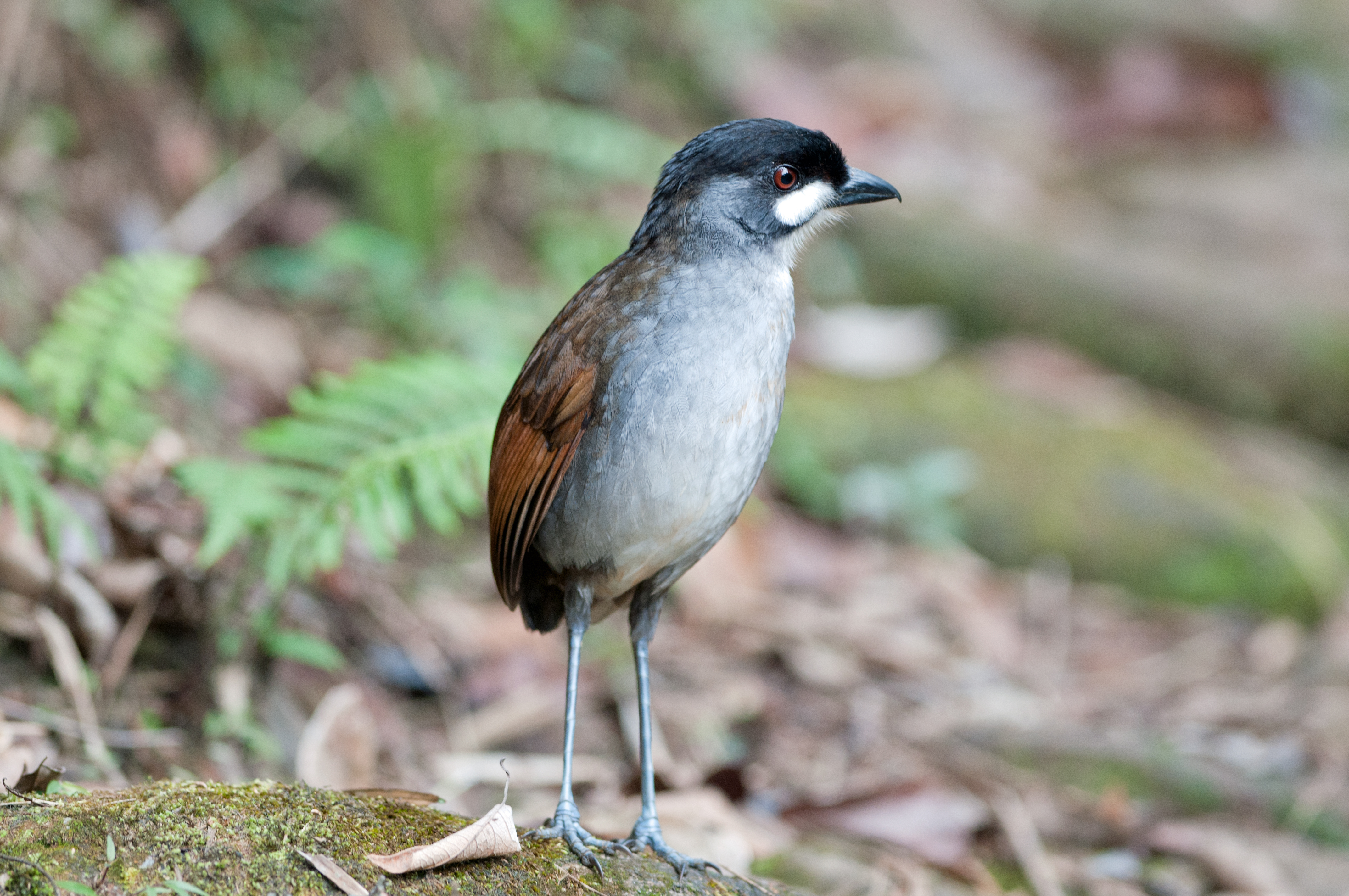 A Jocotoco Antpitta at Tapichalaca Reserve, Ecuador.